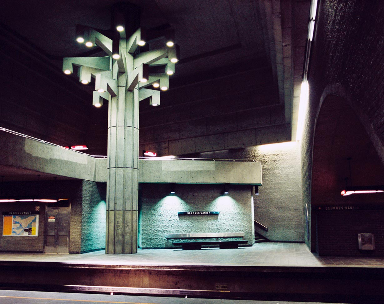 The interior of the Georges-Vanier metro station in Montréal, Québec, Canada, on the system's Orange Line. Despite being one of the least used stations (65th of 65 in traffic in 2001 and 64th in 2002), it has one of the network's most distinctive lighting features: a stylized concrete tree sculpture by Michel Dernuet titled "Un arbre dans le parc".